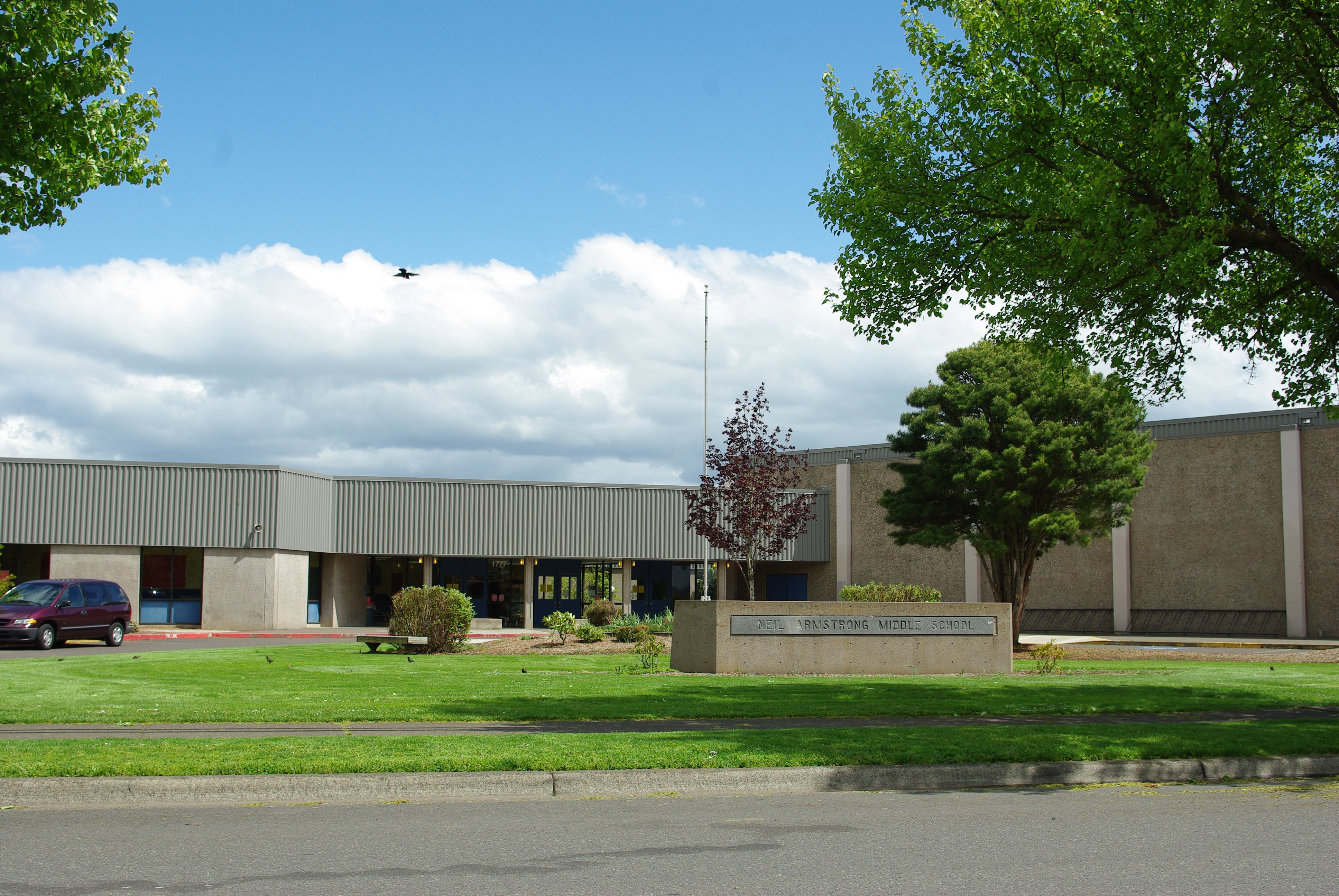 Neil Armstrong Middle School in Forest Grove, Oregon.